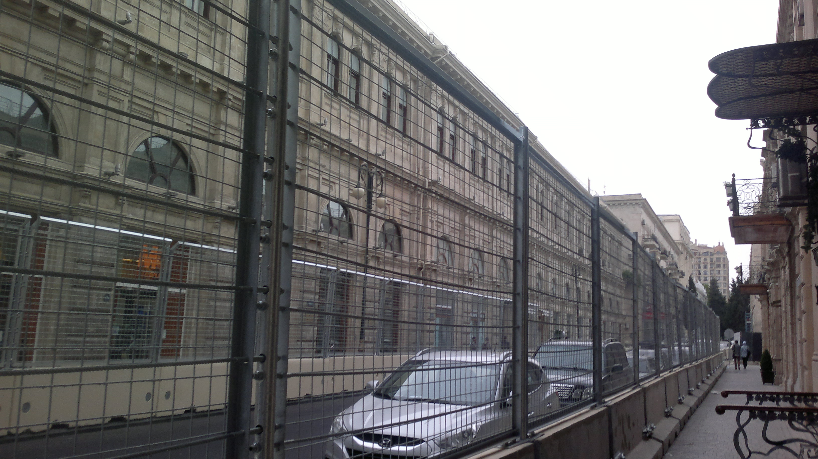 Barriers in Baku for Formula 1 Grand Prox 2016